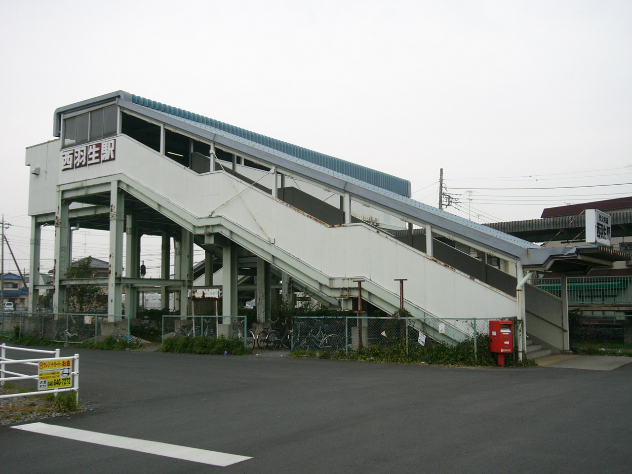 Nishihanyu Station (South Entrance)